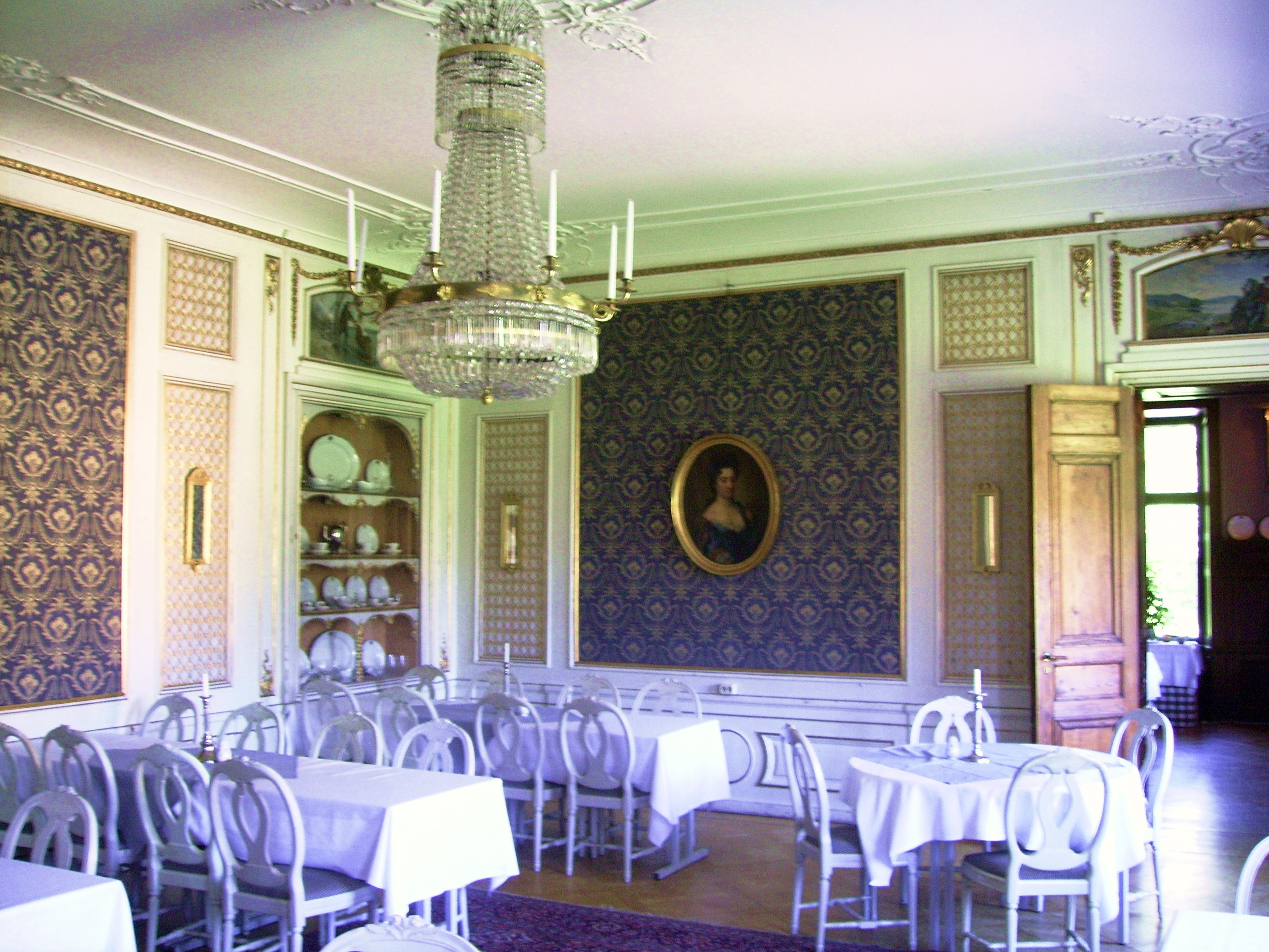 Picture of interior at Södertuna slott in Gnesta kommun